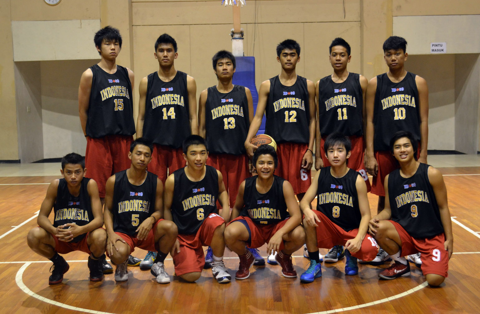 12 skuad timnas bola basket Indonesia U16. Jongkok dari kiri Nuke Tri Saputra, Dominico Savio Rajendra, Rafael Yogia, Cakrawala Satria Airawan, Kevin Andrew Setiawan, Ricky Kartika Istiadi. Berdiri dari kiri: Vincent Rivaldi Kosasih, Juan Lauent Kokodiputra, Hans Abraham, M. Reza Fahdani Guntara, M. Sandy Ibrahim Aziz, Ferdian Dwi Purwoko